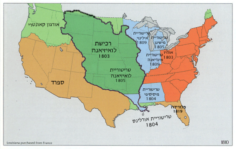 Based on File:National-atlas-1970-1810-loupurchase-1.png